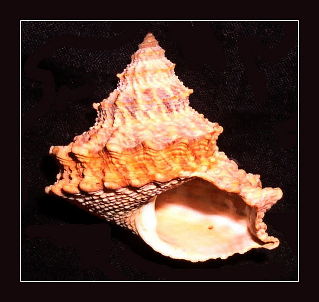 Tectarius pagodus (Linnaeus, 1758) - Large winkle